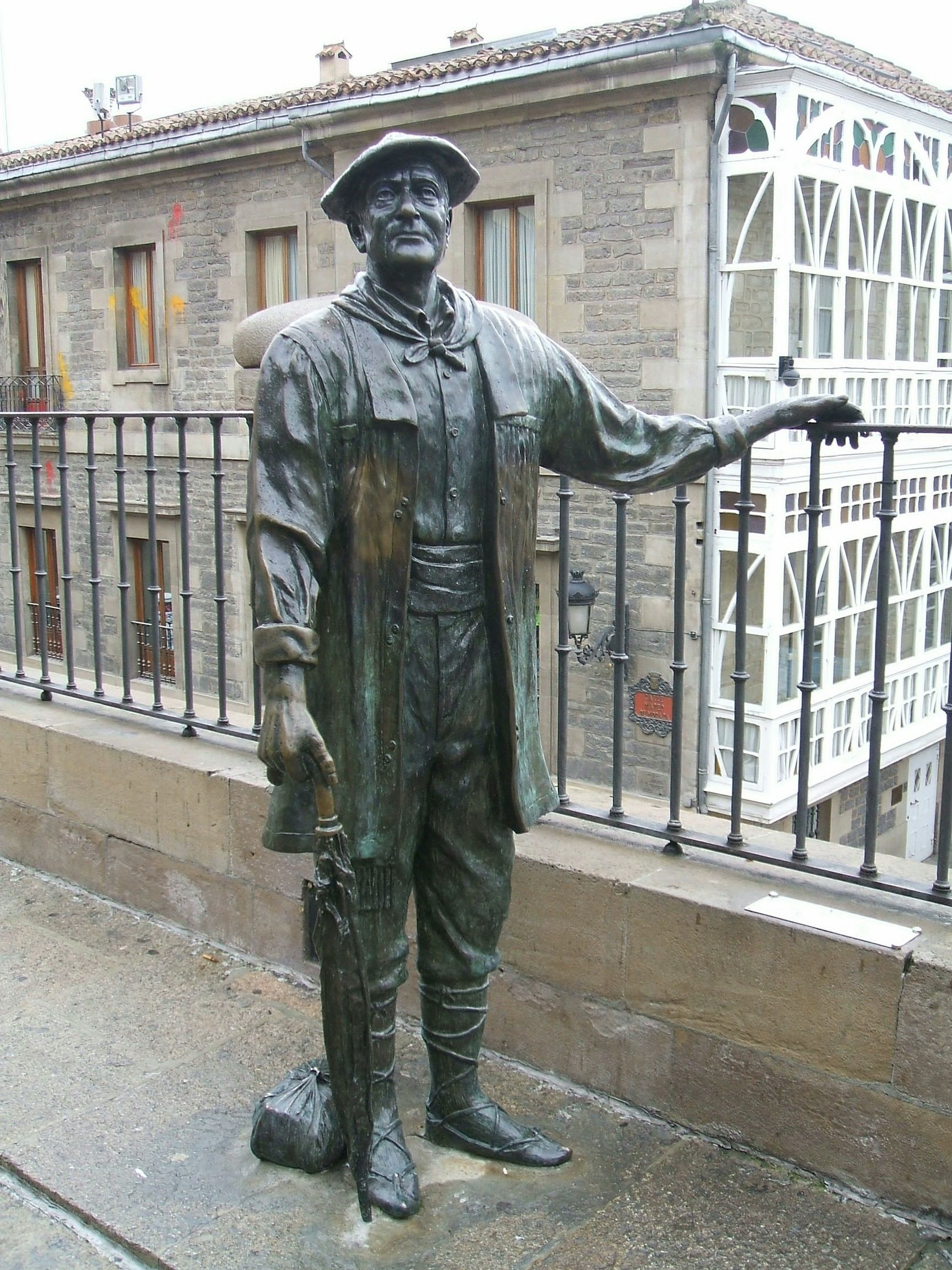 Estatua de El Celedón, ante el Pórtico de la iglesia de San Miguel Arcángel, Vitoria-Gasteiz